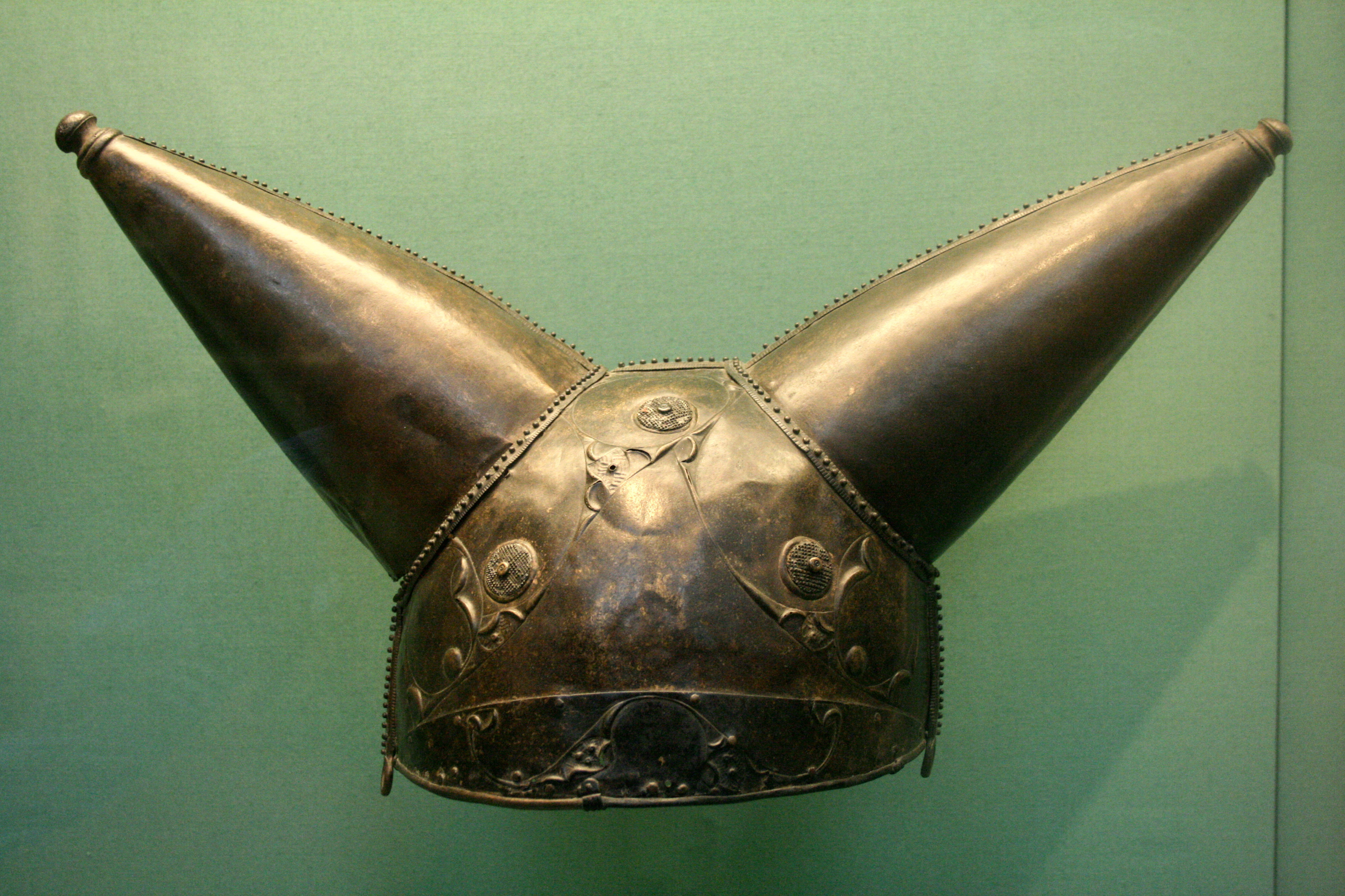 Celtic horned helmet (150-50 BC), found in the river Thames at Waterloo Bridge, london ( British Museum )